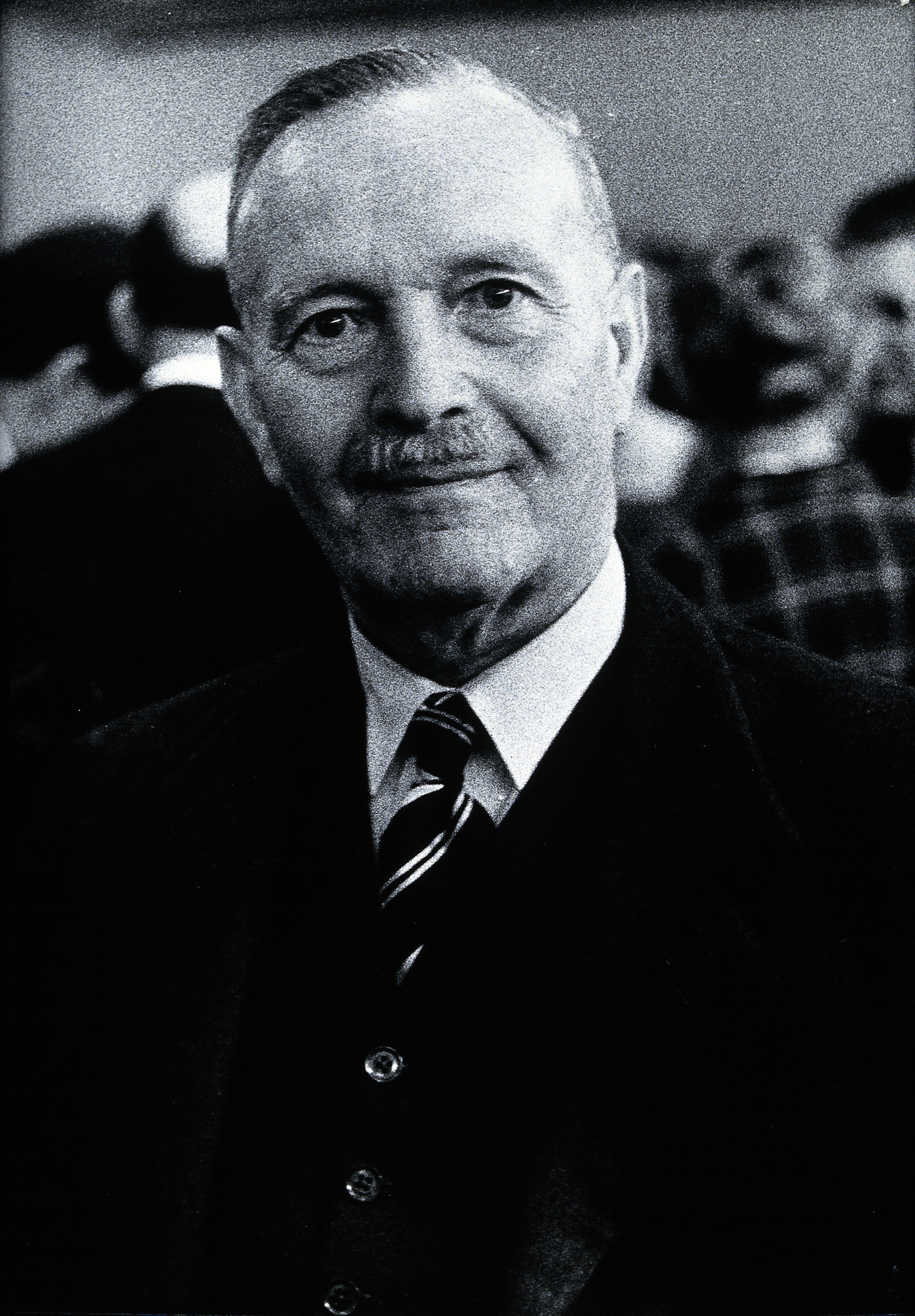 Henry Shortt. Photograph. Iconographic Collections Keywords: portrait photographs